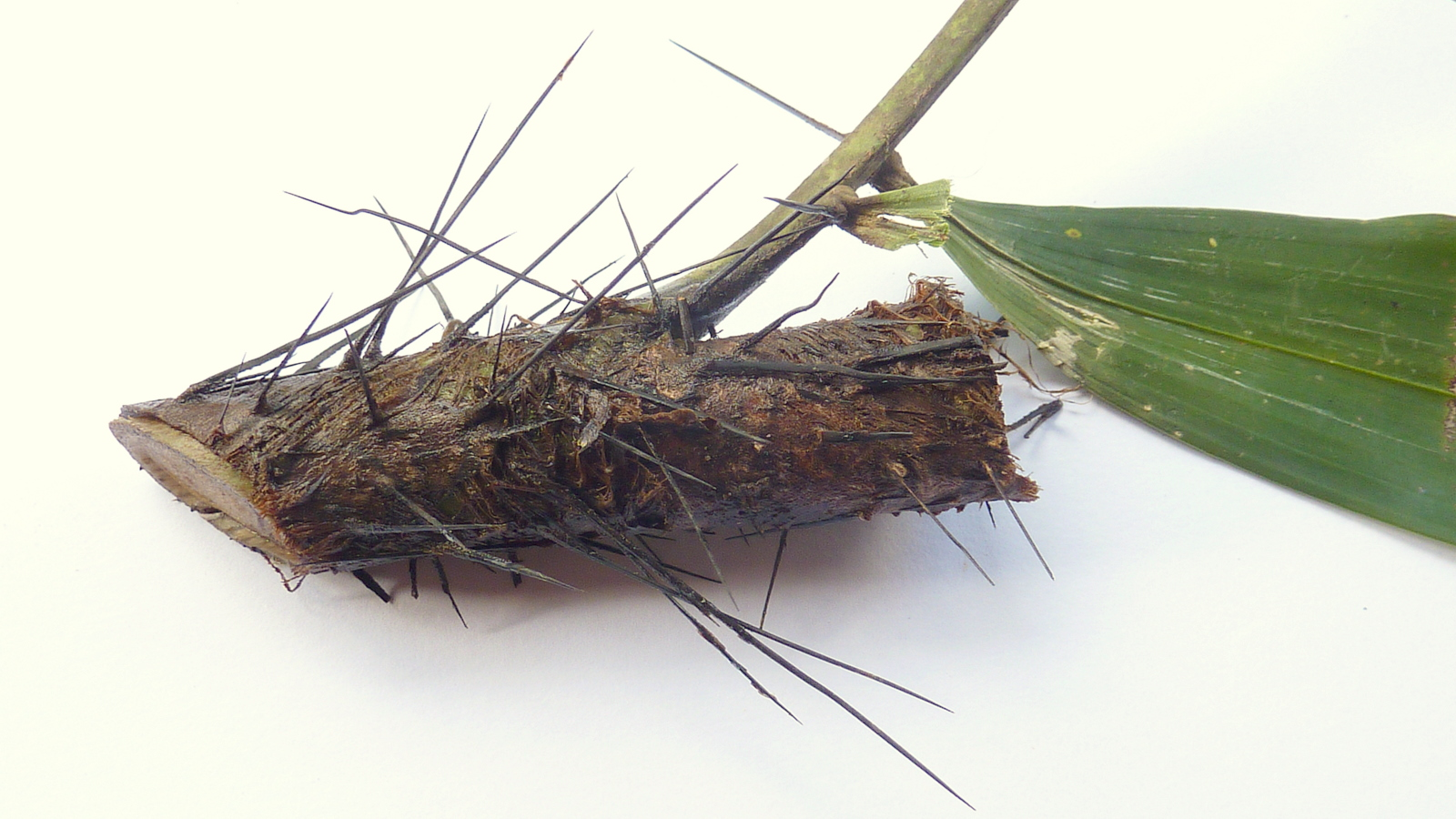 Desmoncus orthacanthos Mart.